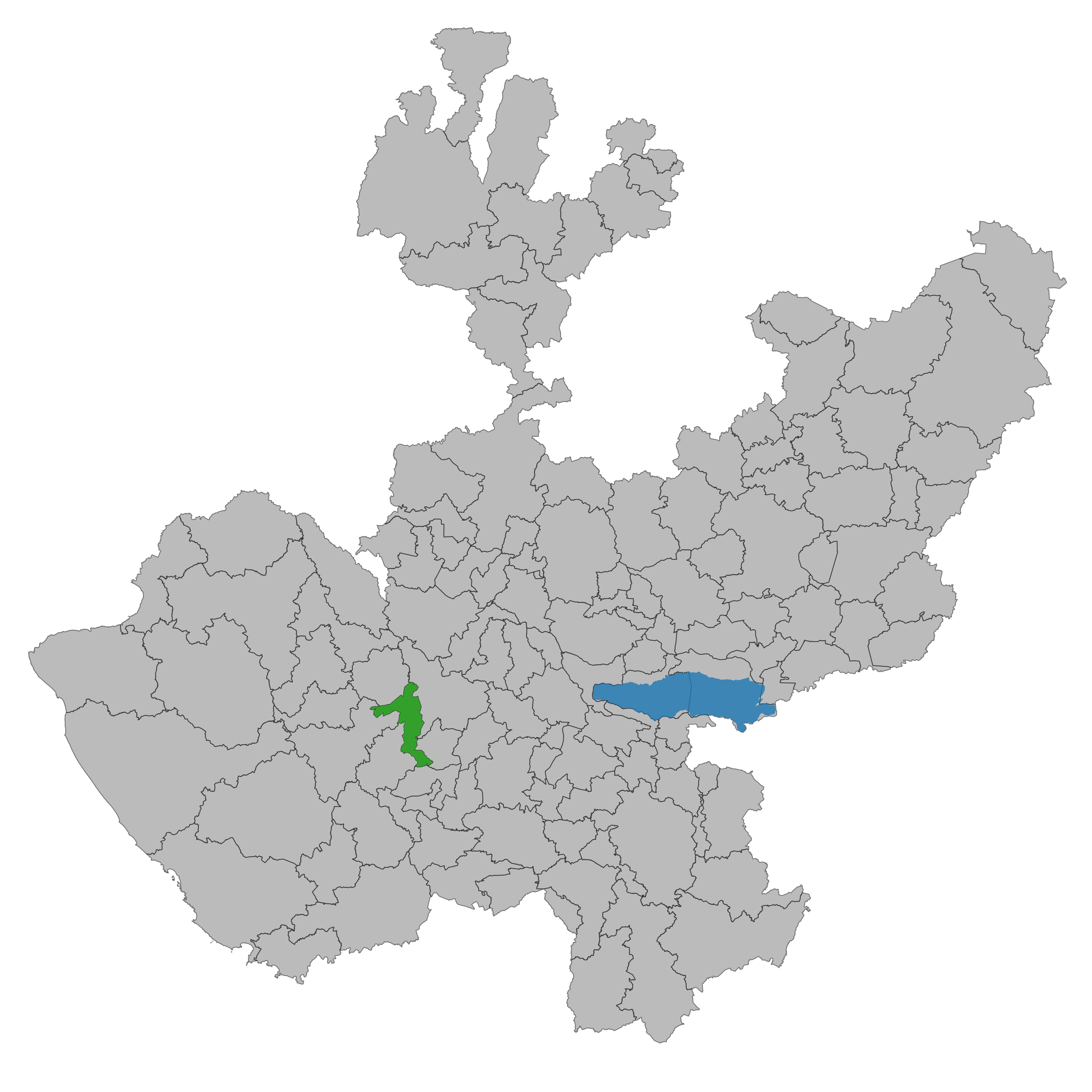 Municipality of Jalisco. Prepared with the software QGIS version 2.8.2 Wien & with information of SCINCE 2010 version 05/2013